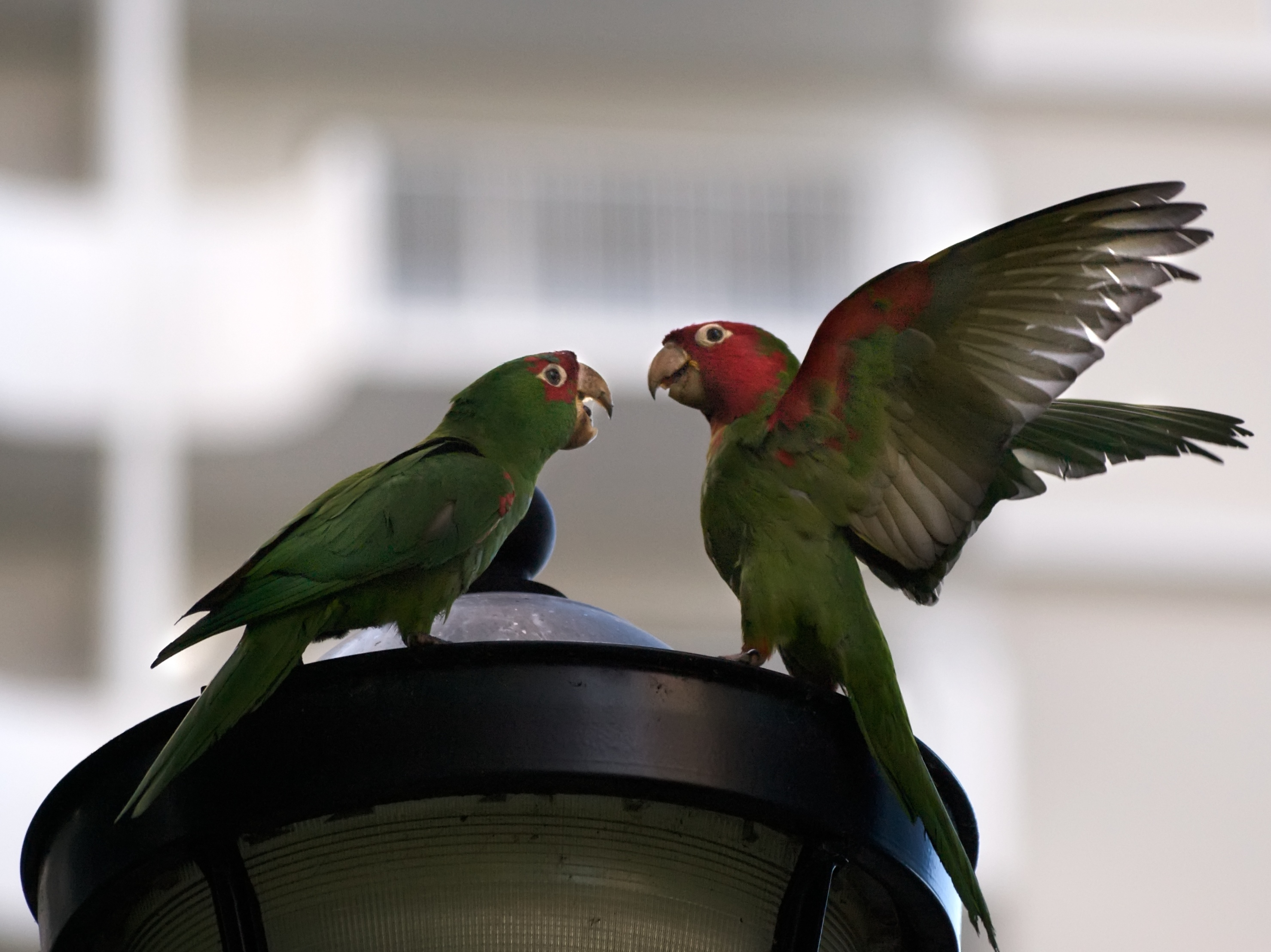 Red-masked Parakeets on a street lamp in San Francisco, USA. One has its wing open showing a red area on the underside of each wing.